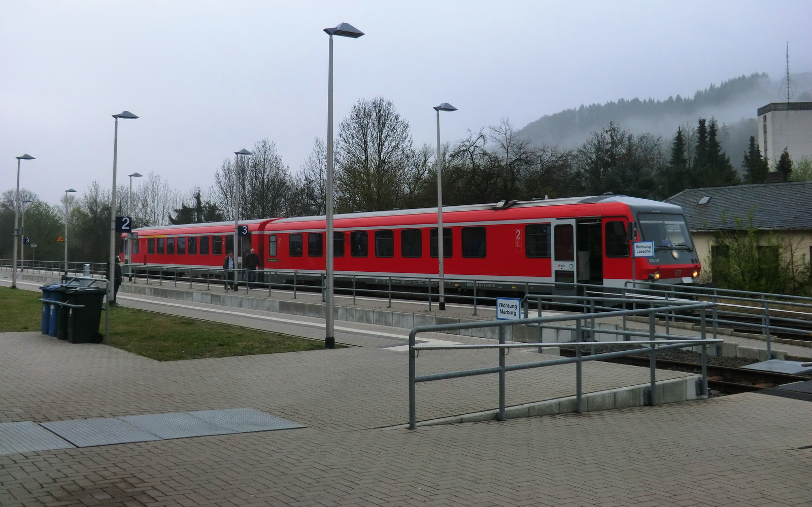 Train station, Biedenkopf, Hesse, Germany